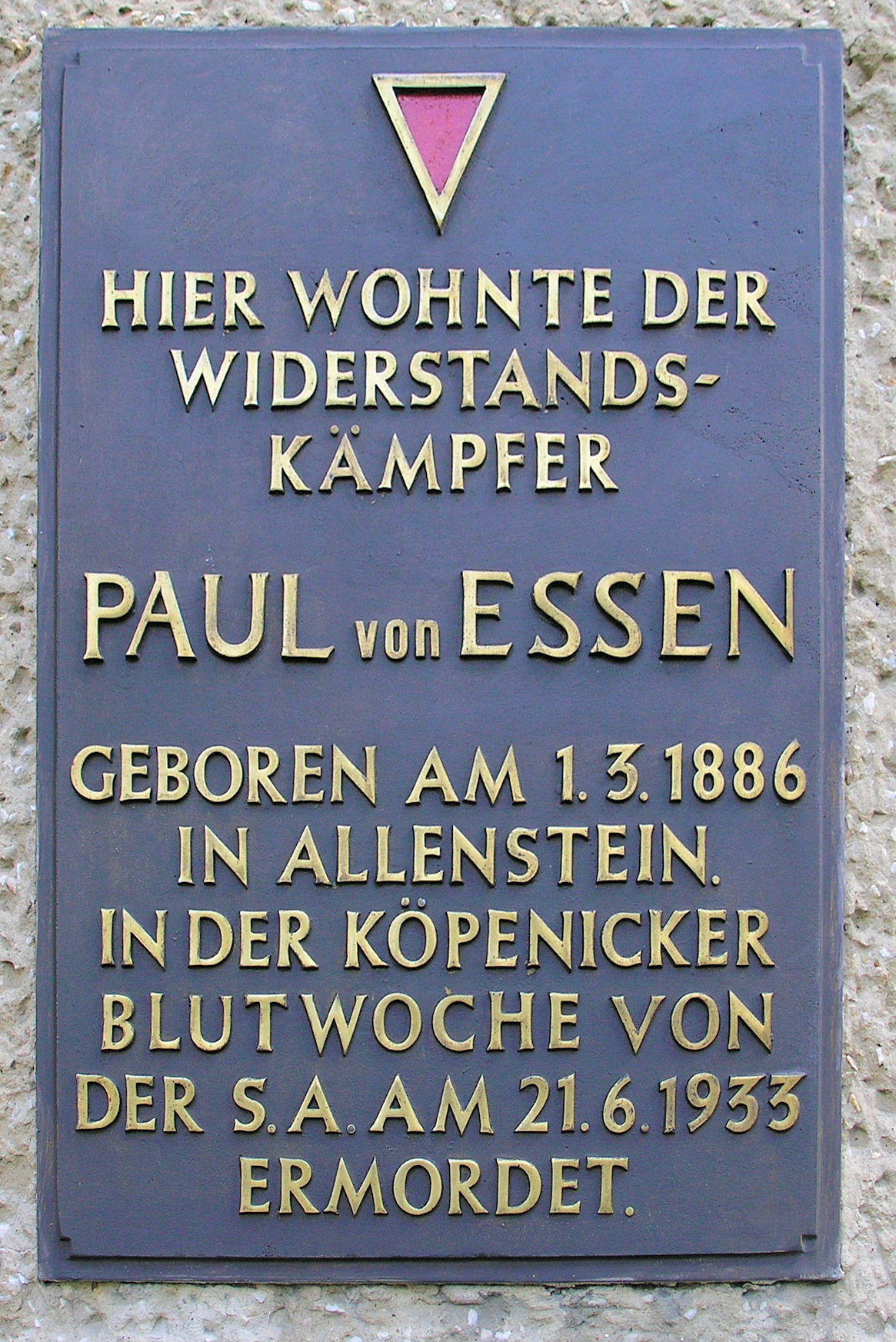 Memorial plaque, Paul von Essen, Essenplatz 9, Berlin-Köpenick, Germany